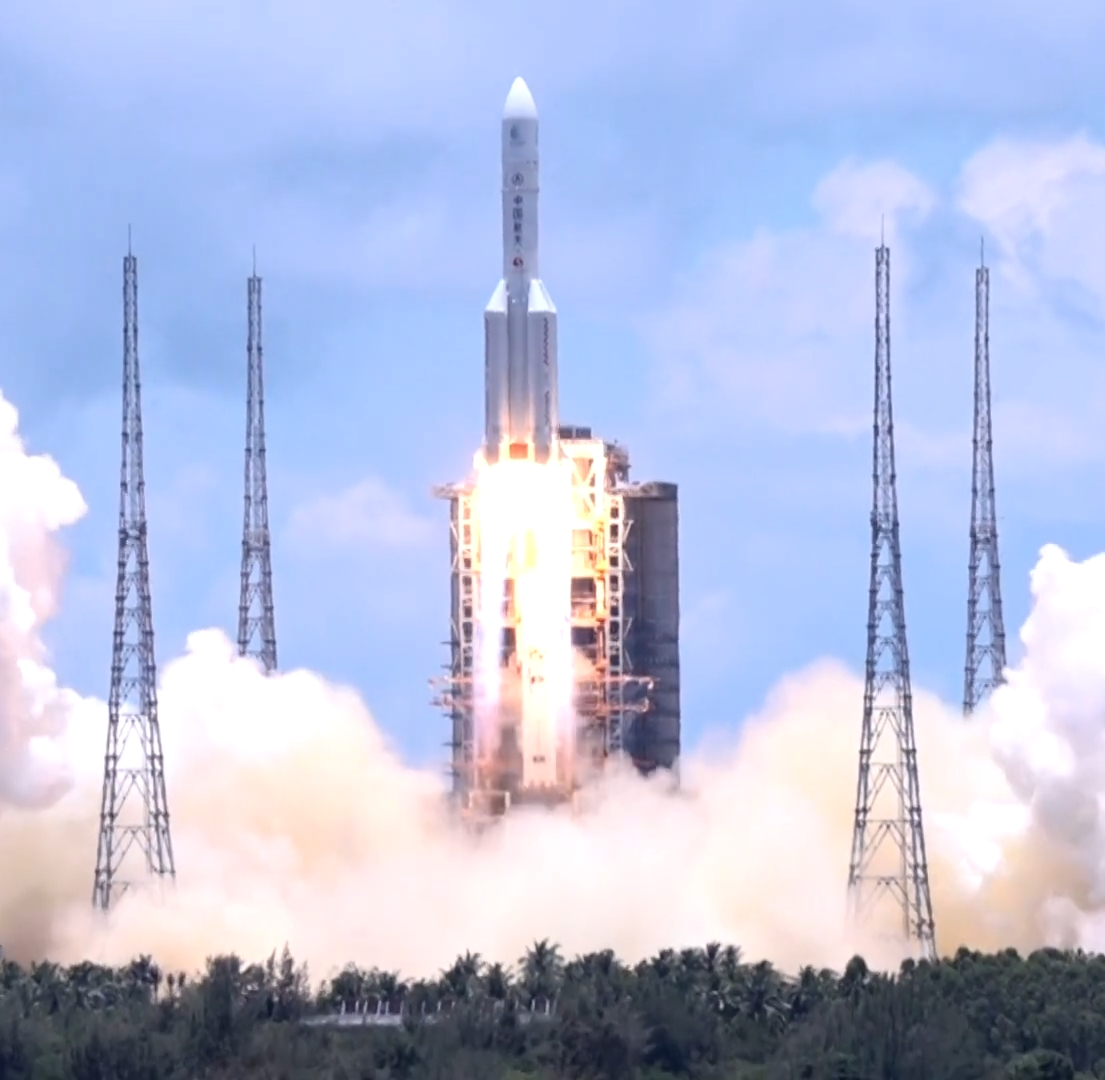 Space probe of Tianwen-1 Mission was launching by Long March 5 Y4 carrier rocket